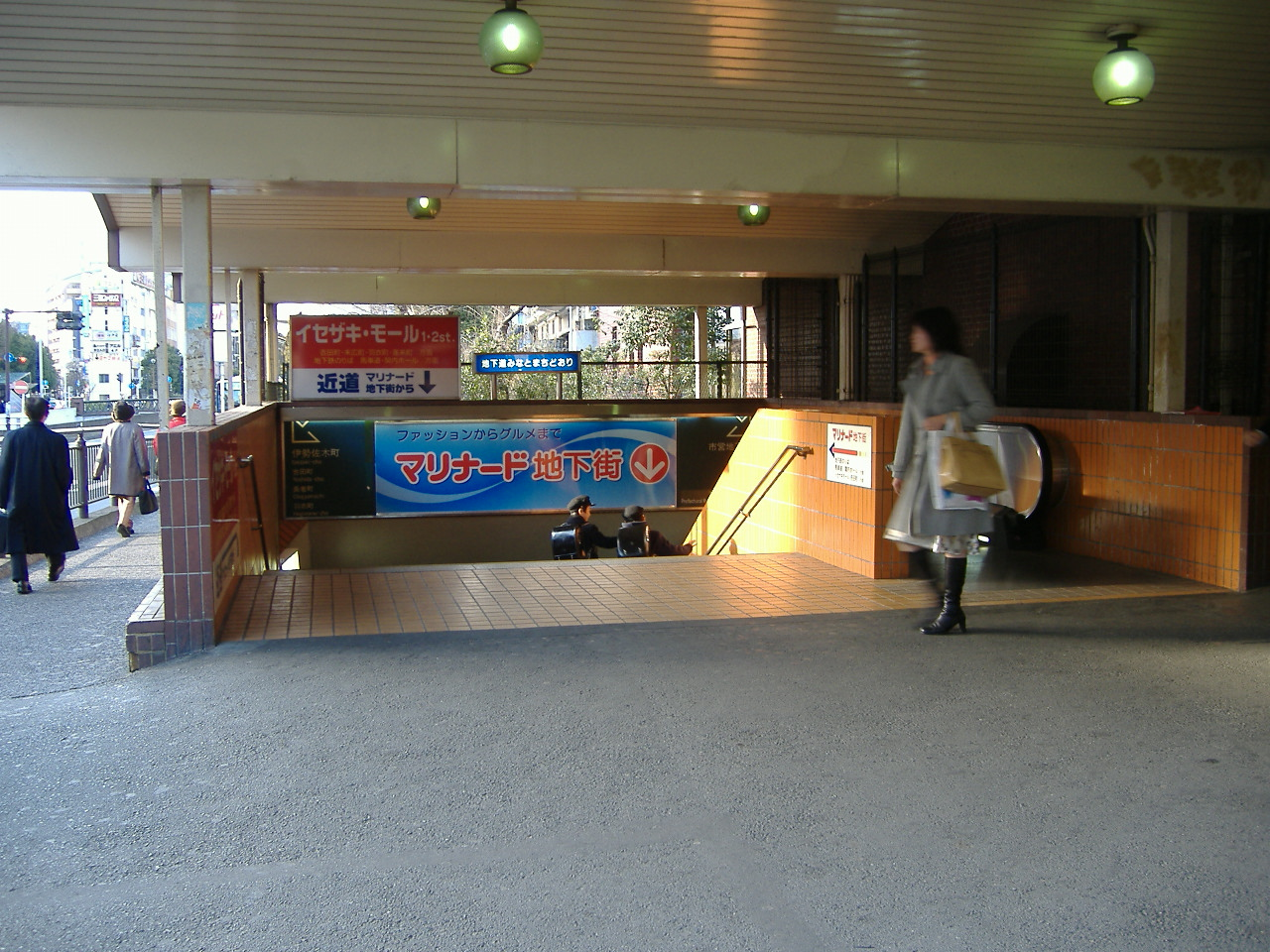 marinard Shoppingmall (Yokohama,Japan)